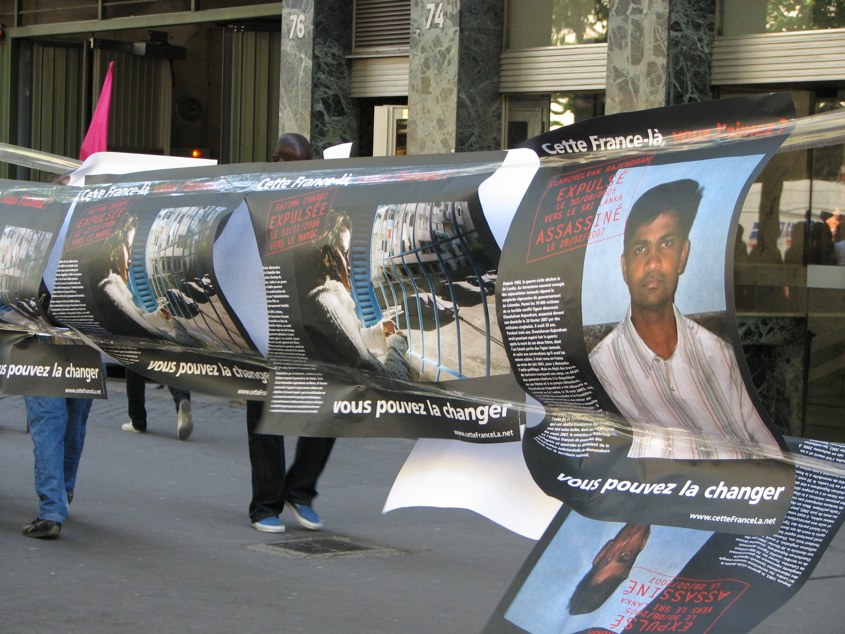 protesting against expulsions of asylum seekers